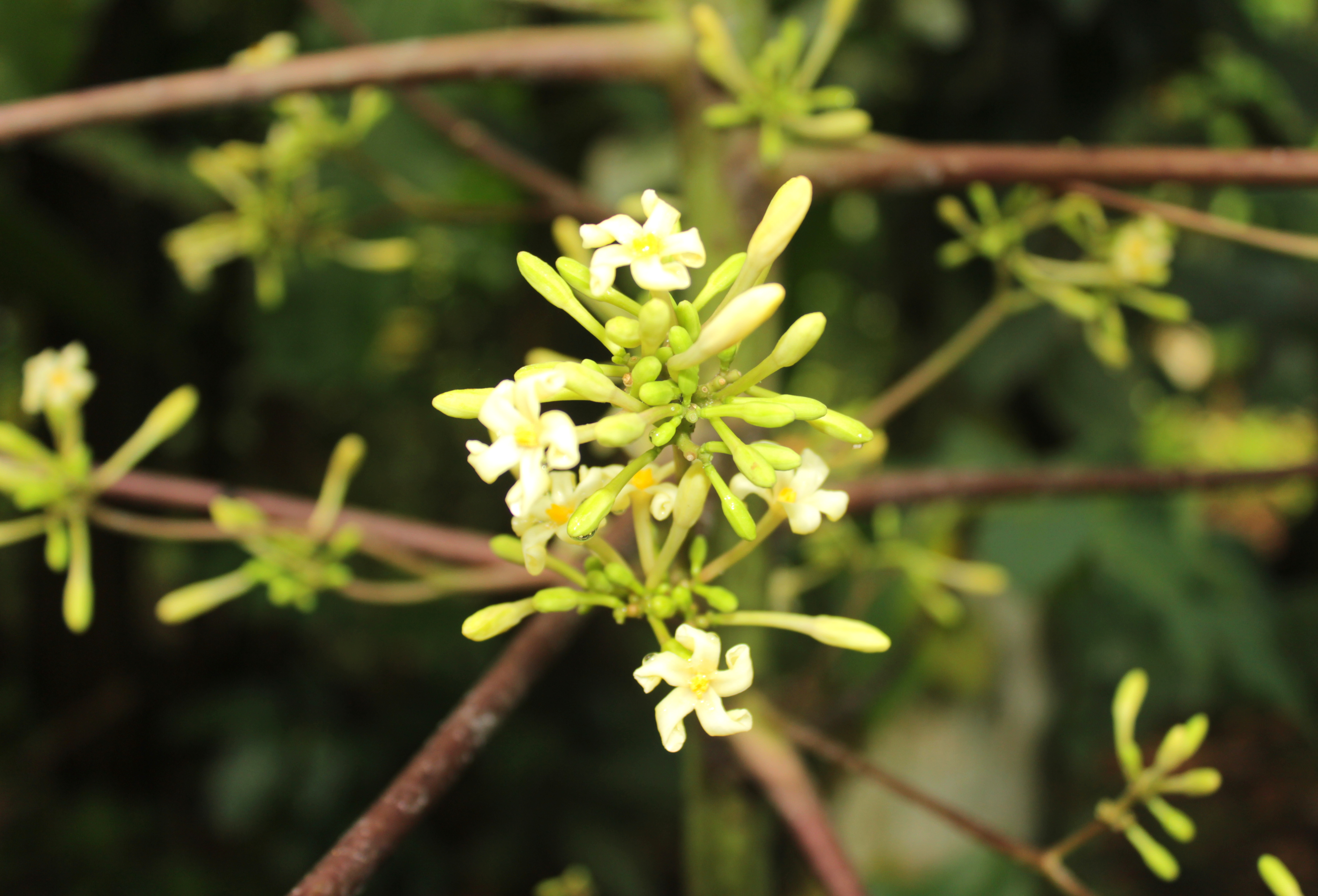 Papaya flowers. Photographed near Kanjirappally, Kerala, India